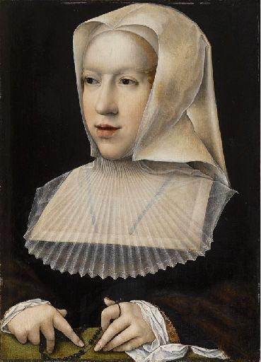 Margaret of Austria attributed to Bernard von Orley 1600s.